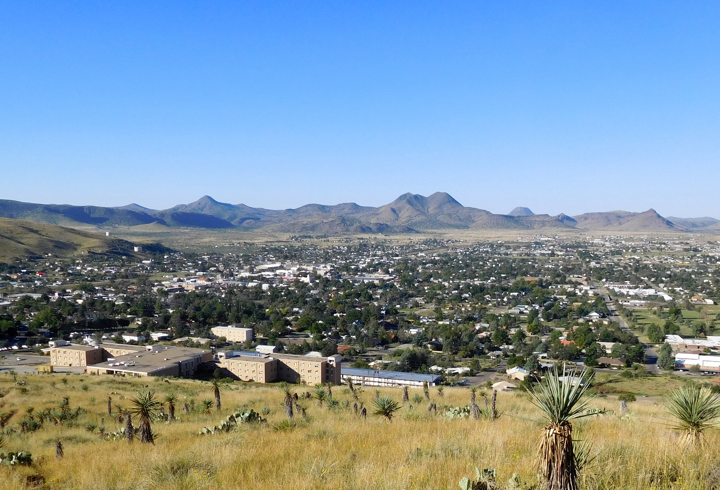 Alpine, Texas from atop Hancock Hill to the northeast.